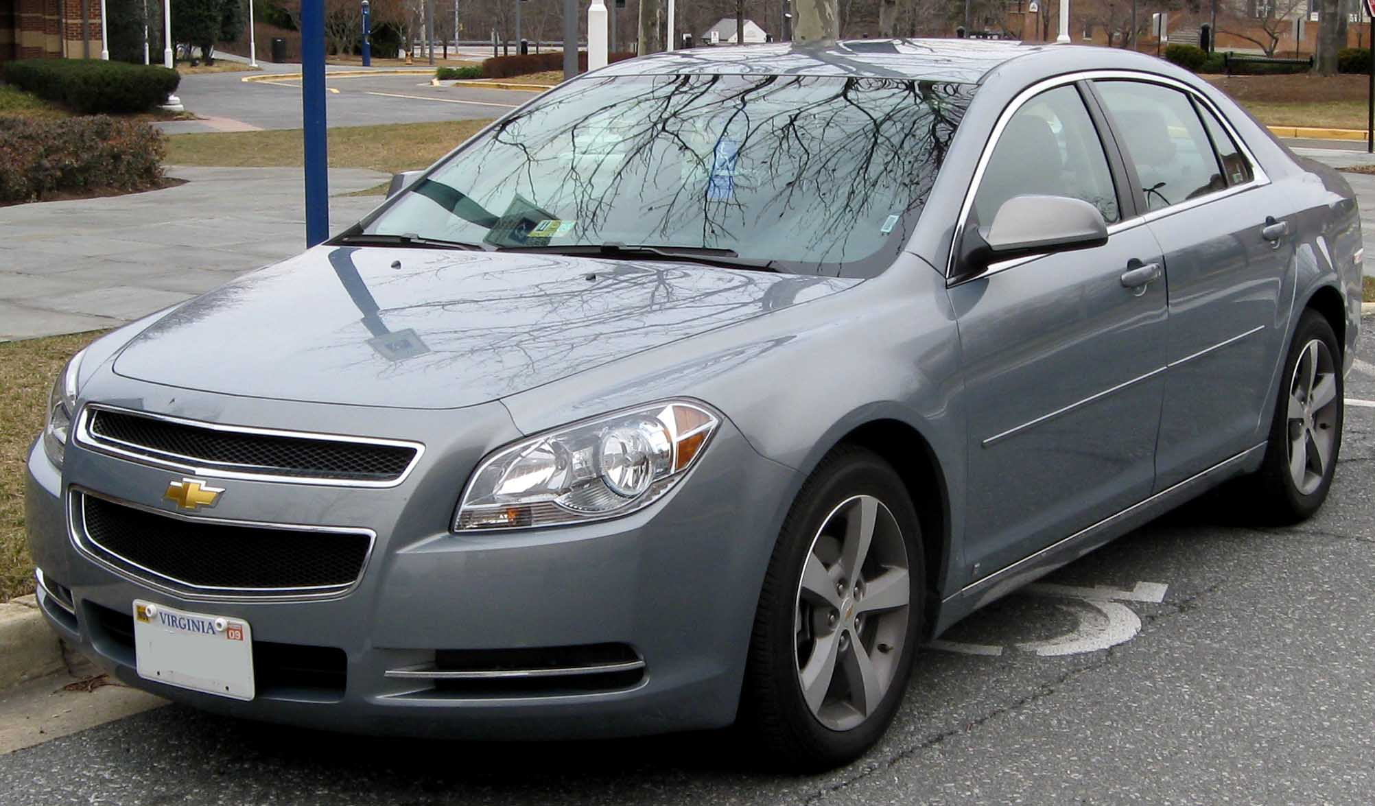 2008 Chevrolet Malibu photographed in College Park, Maryland, USA.